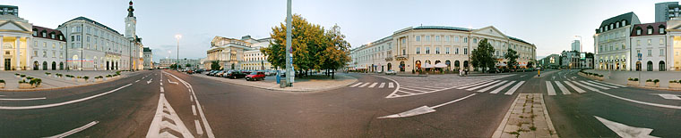 Theatre Square in Warsaw